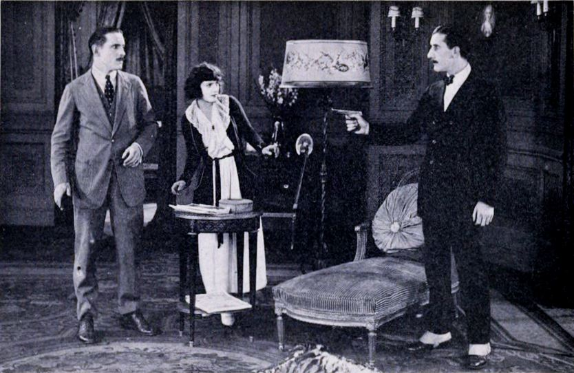 Still from the American mystery film The Teeth of the Tiger (1919) with David Powell, Marguerite Courtot, and Templar Saxe, facing page 344 of the Leblanc novel.